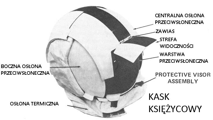 Lunar extravehicular visor assembly